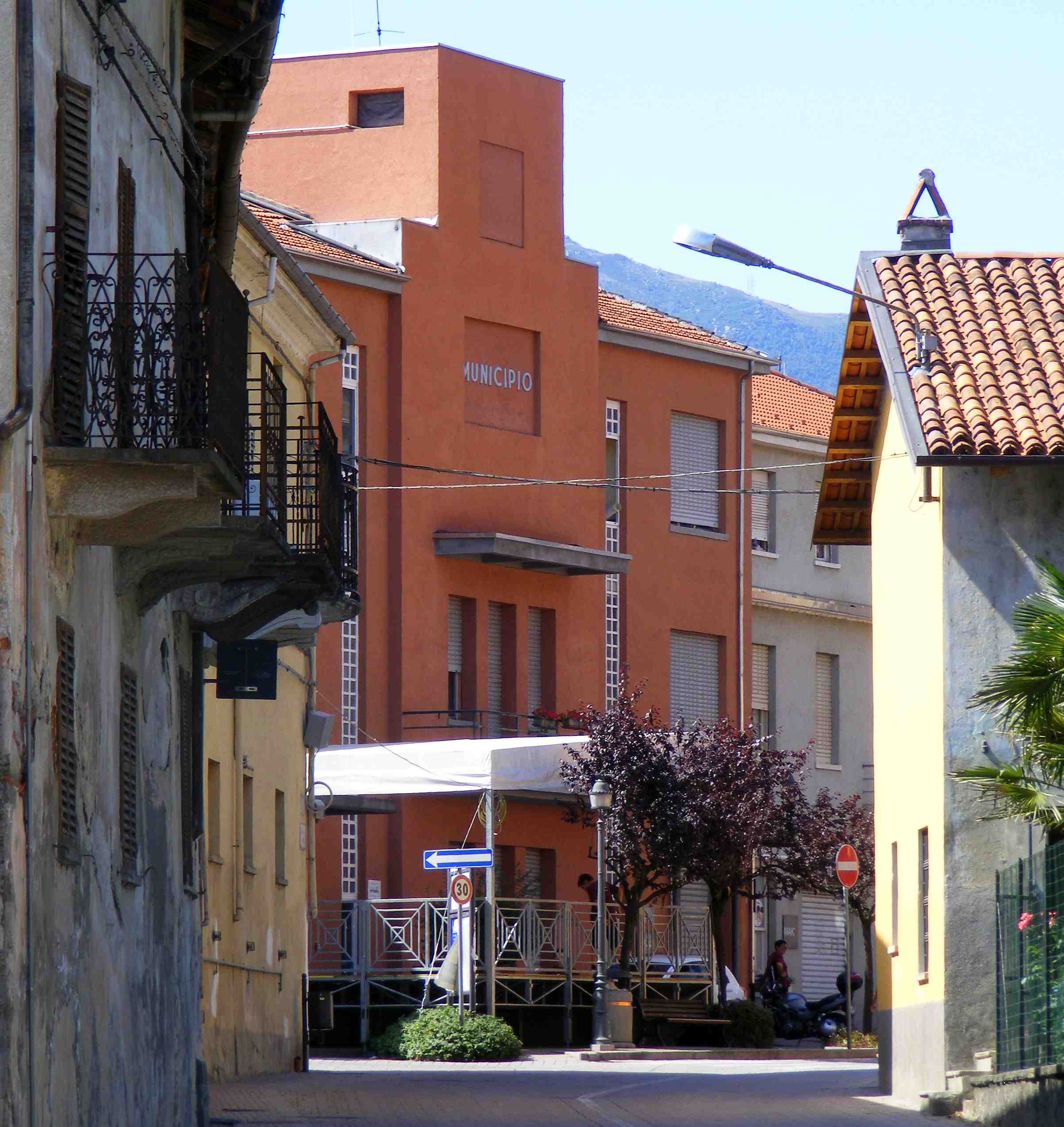 Pavone Canavese (TO, Italy): town hall